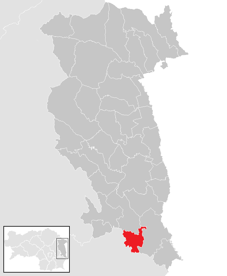 district Hartberg-Fürstenfeld